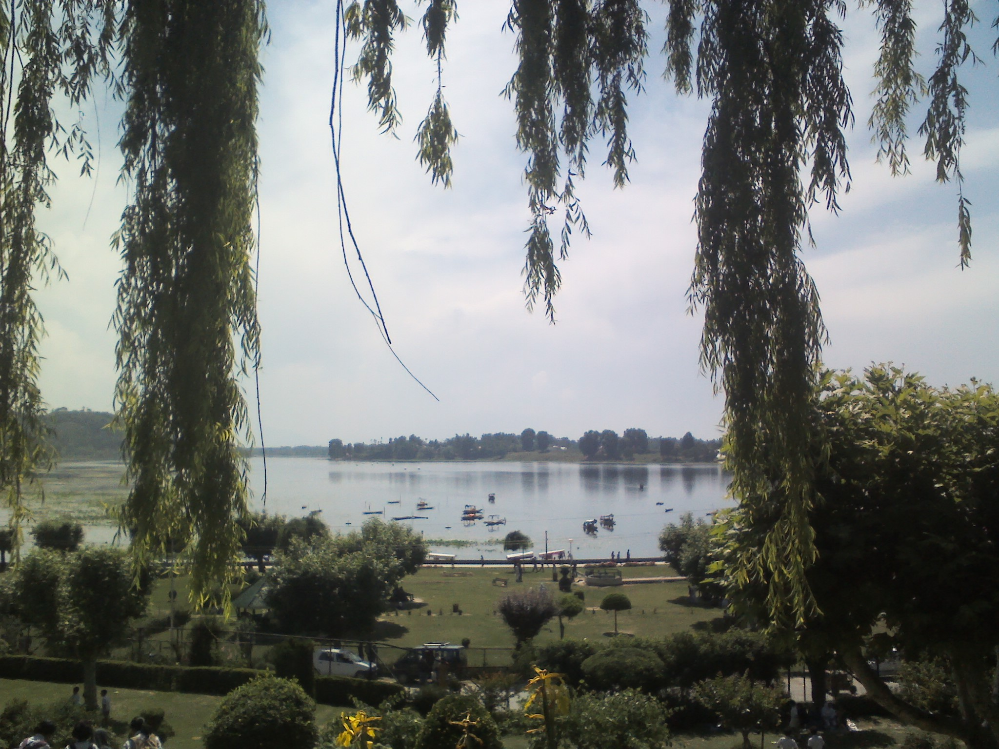 Manasbal Lake in Kashmir Valley